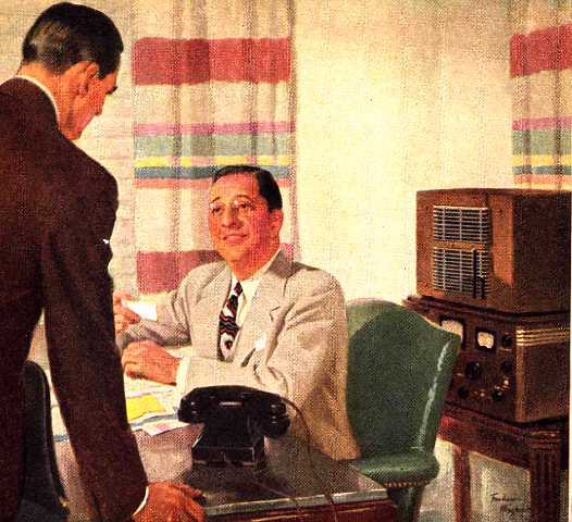 Bill Halligan depicted in Hallicraafters ad circa 1944 (Thanks to KB8TAD)